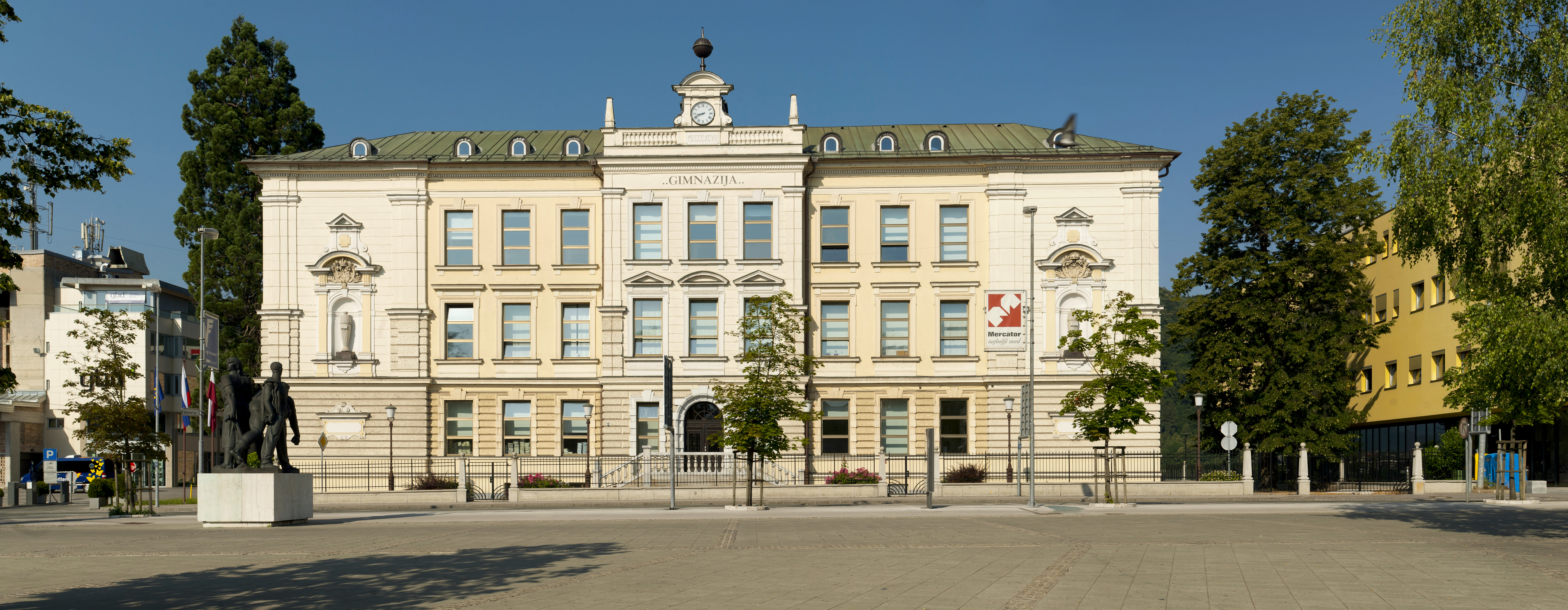 Kranj Gymnasium, next to Slovene Square (Slovenski trg). The historicist building was completed in 1897 according to plans by Viljem Treo (1845–1926) from Ljubljana. The sculpture in the front is work by Lojze Dolinar (1893–1970).